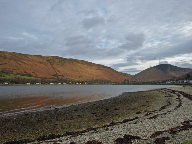 Loch Ranza, Arran The castle can just be spotted in the centre.